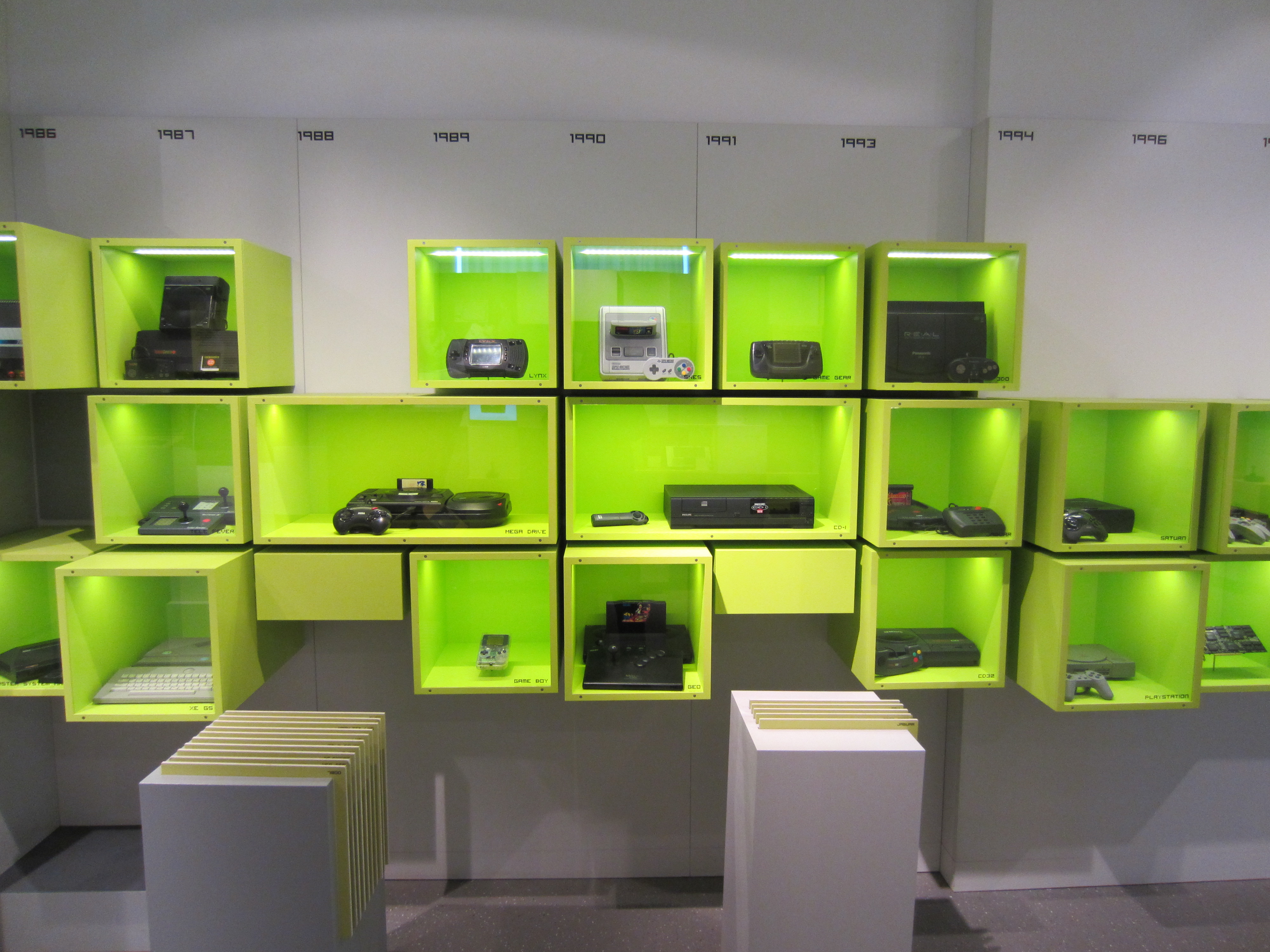 Gaming consoles from 80s and 90s in the Computerspielemuseum (computer gaming museum) in Berlin.